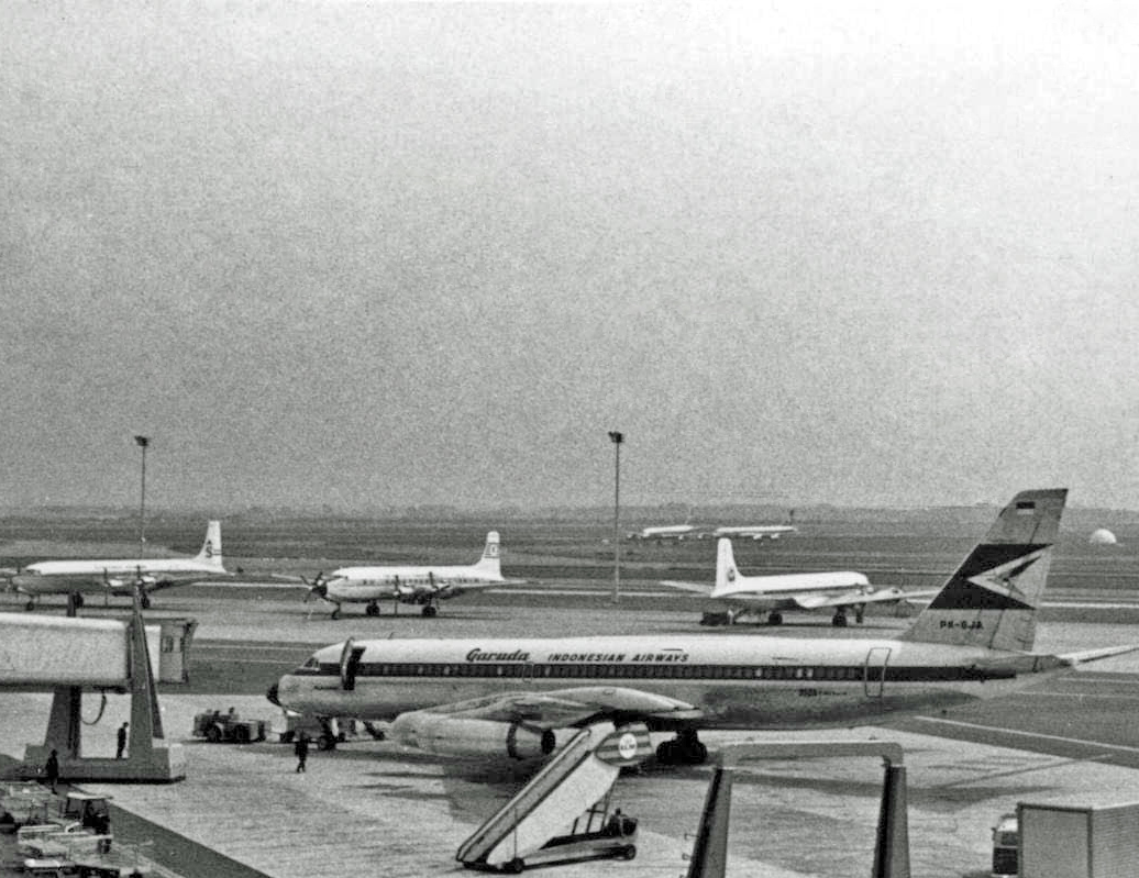 Convair 990 Coronada PK-GJA of Garuda Indonesian at Amsterdam Schiphol in 1967